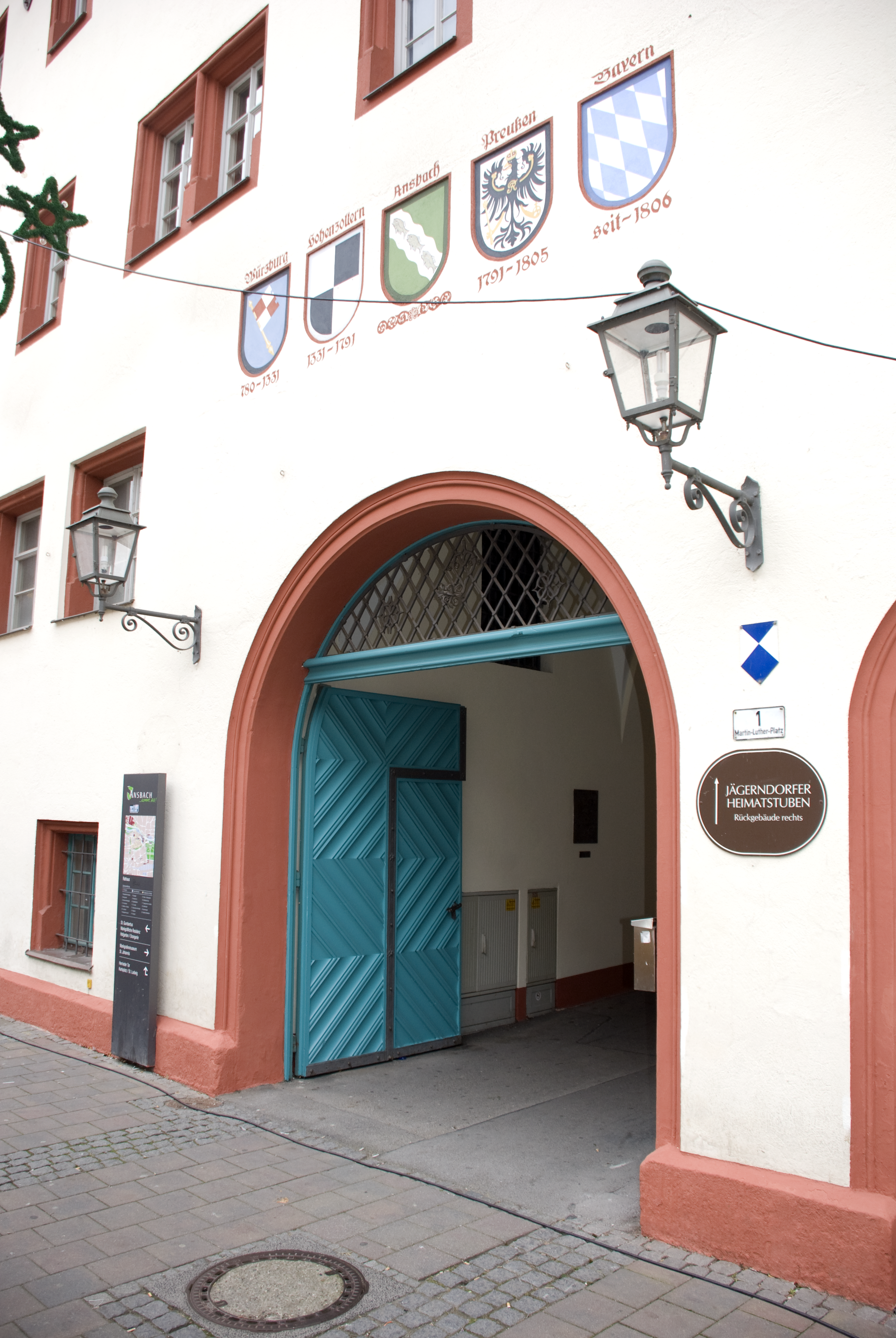 Gate of the town hall in Ansbach.